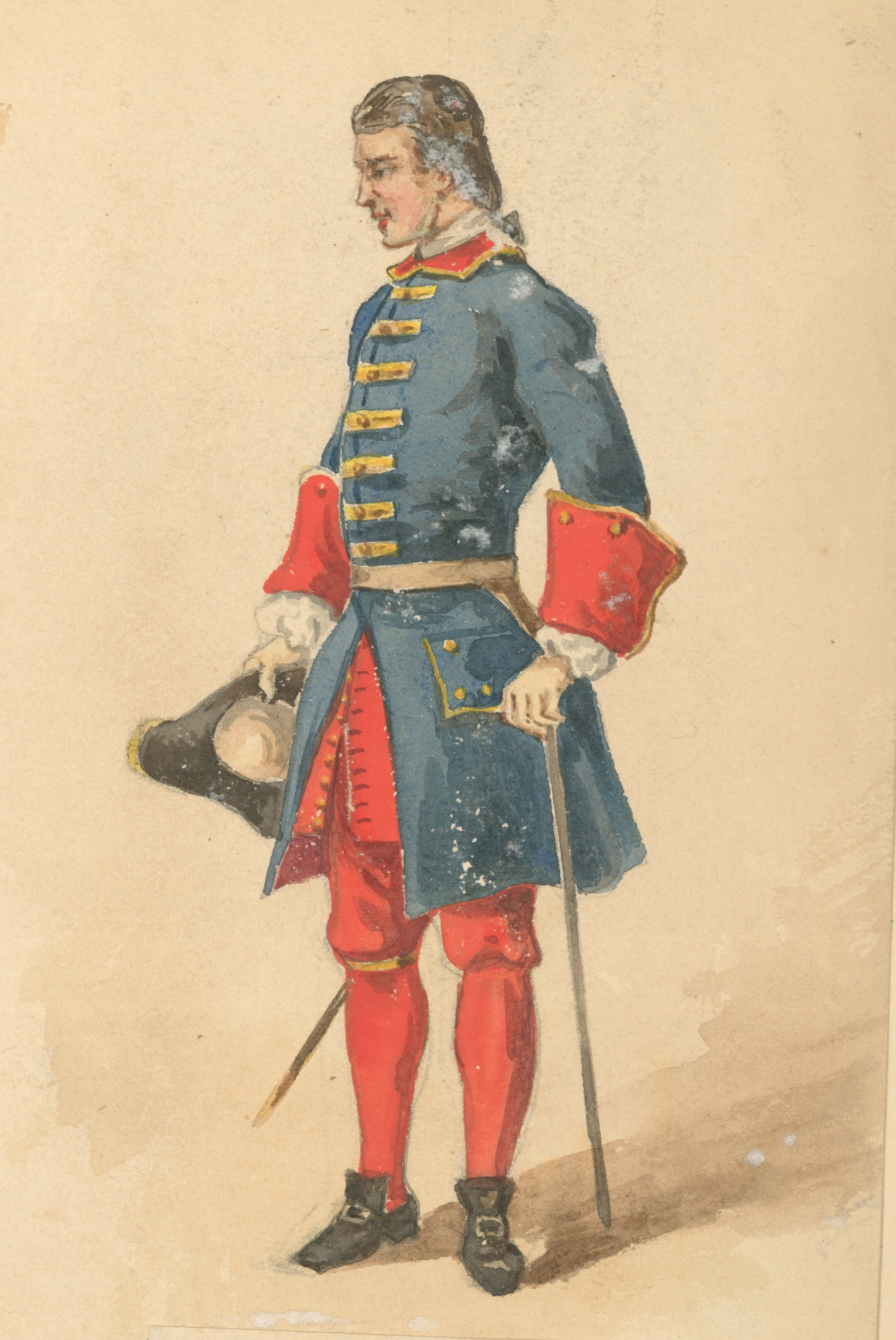 Sergeant of the French Royal Artillery 1700-1720